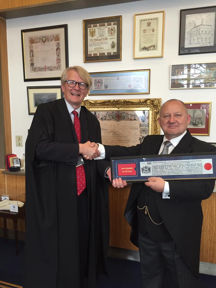 Freedom of the City of London Ceremony: Guildhall, London; 3pm, Monday 12 September 2016; presentation to George William Helon from Murray Craig, Clerk of the Chamberlain's Court.